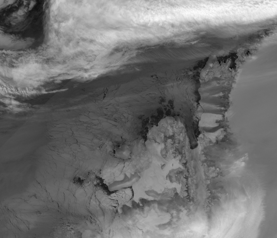 This image is made from thermal infra-red data collected by the Moderate Resolution Imaging Spectroradiometer (MODIS) on NASA’s Terra satellite. (A photo-like image isn’t possible at this latitude in the winter because of polar darkness). This greyscale image shows relative differences in surface temperature. Dark grey indicates relatively warm temperatures and white indicates relatively cold temperatures. Remnant ice shelf east of Latady Island appears white, as does some of the sea ice between Charcot and Latady Islands. Charcot Island’s nearly black perimeter indicates an area of relatively open ocean that could be navigated by ship. In addition, an area of relatively warm ocean water appears off the western end of Latady Island.